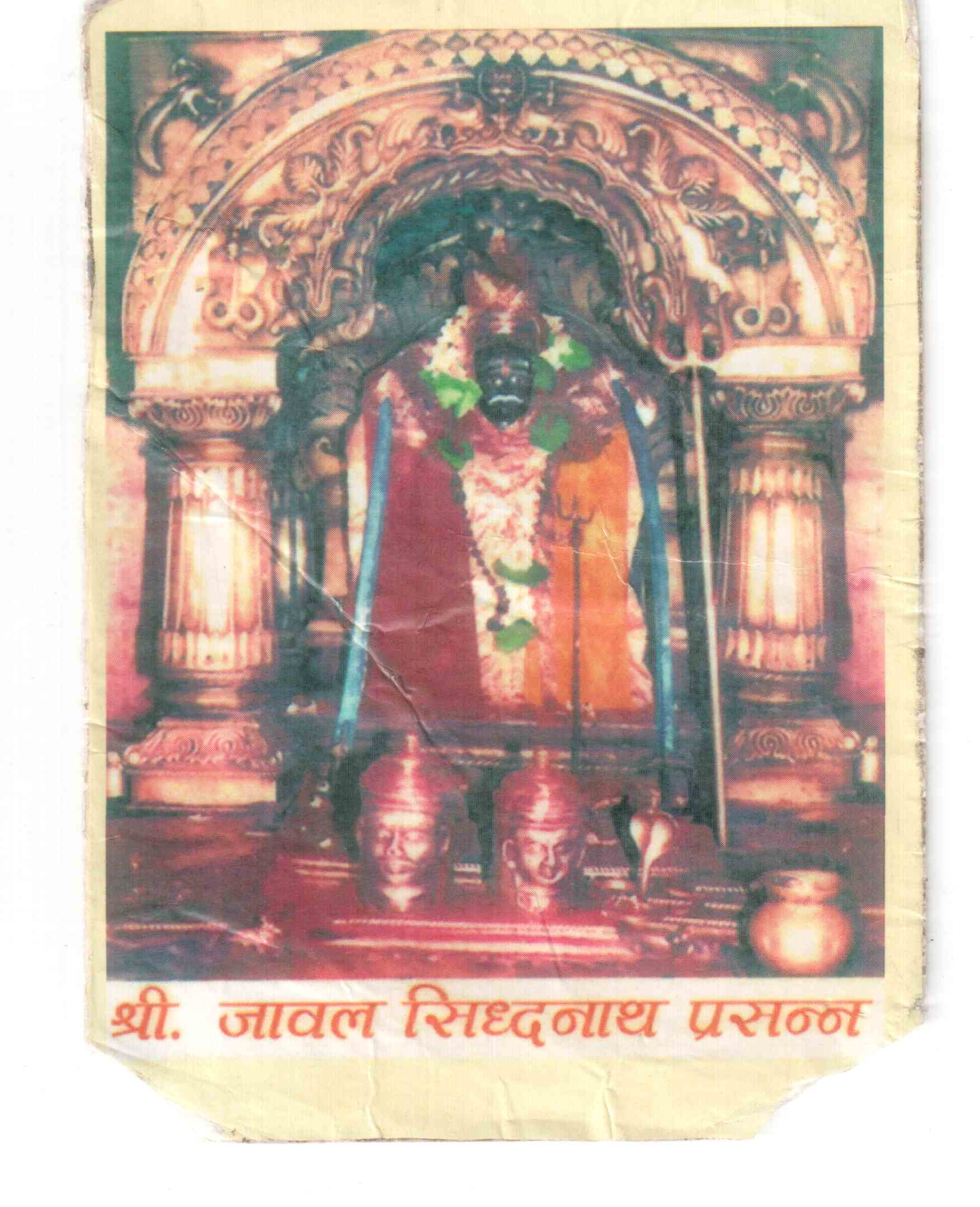 Shree Jawal Siddhanath of Jawali,tal-Phaltan, Dist-Satara, Maharashtra. Clan God of Royal hindu chambhar Bhoite, kharat, mane, kamble, agawane .